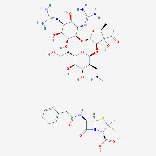 core structure of pen-strep